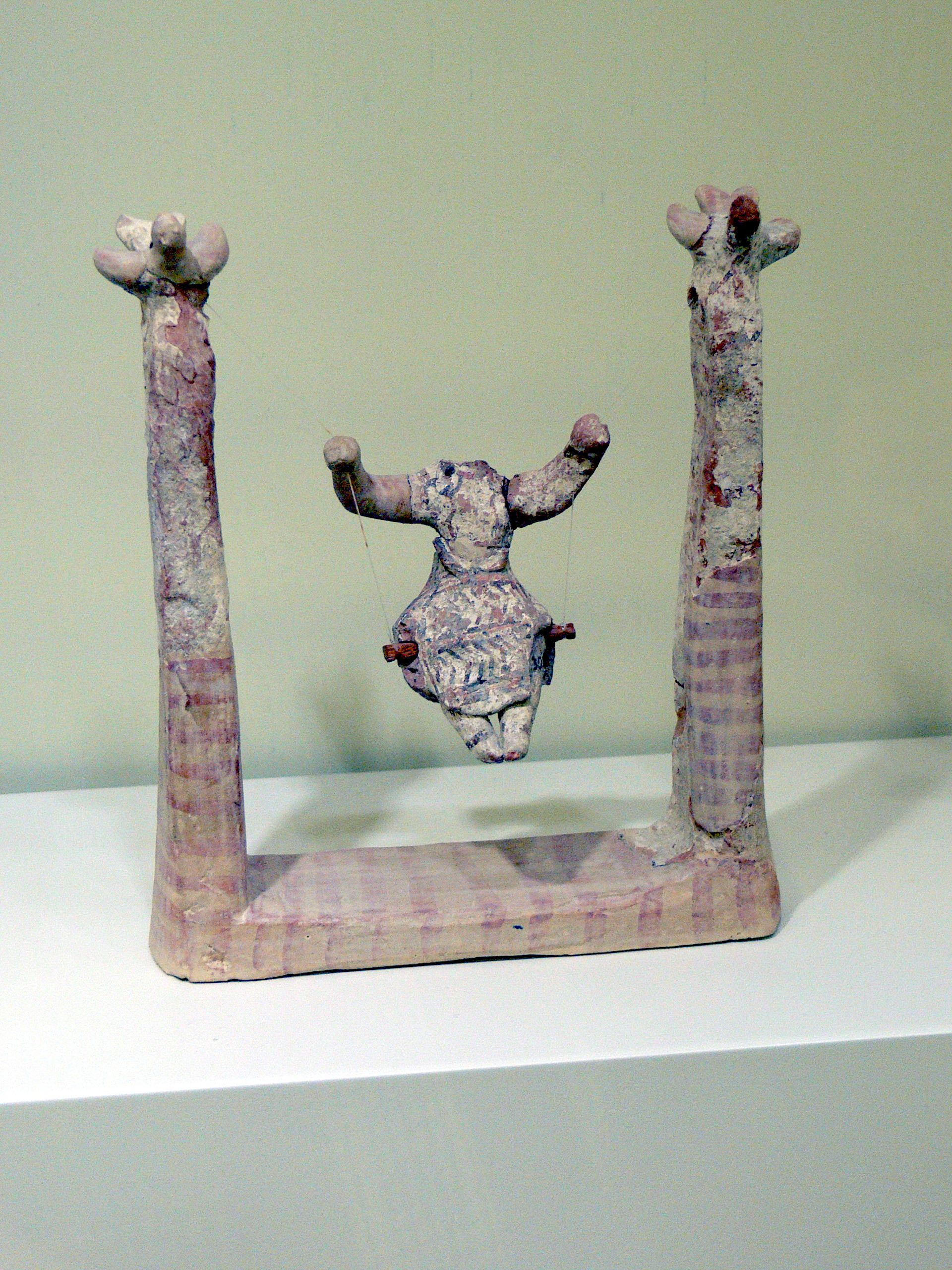 Archaeological Museum in Herakleion. Woman sitting on a swing. Agia Triada, Late New Palace period ( 1450-1300 B.C. )